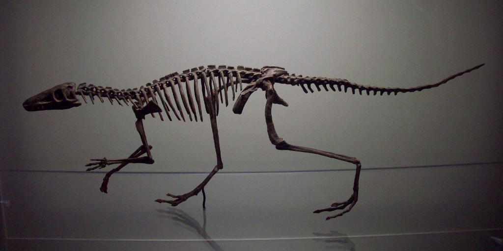 Skeleton of an Lagosuchus Talampayensis, found in Talampaya National Park, picture has been taken in the exhibition “Dinosaurier, Giganten Argentiniens” in Rosenheim, Germany